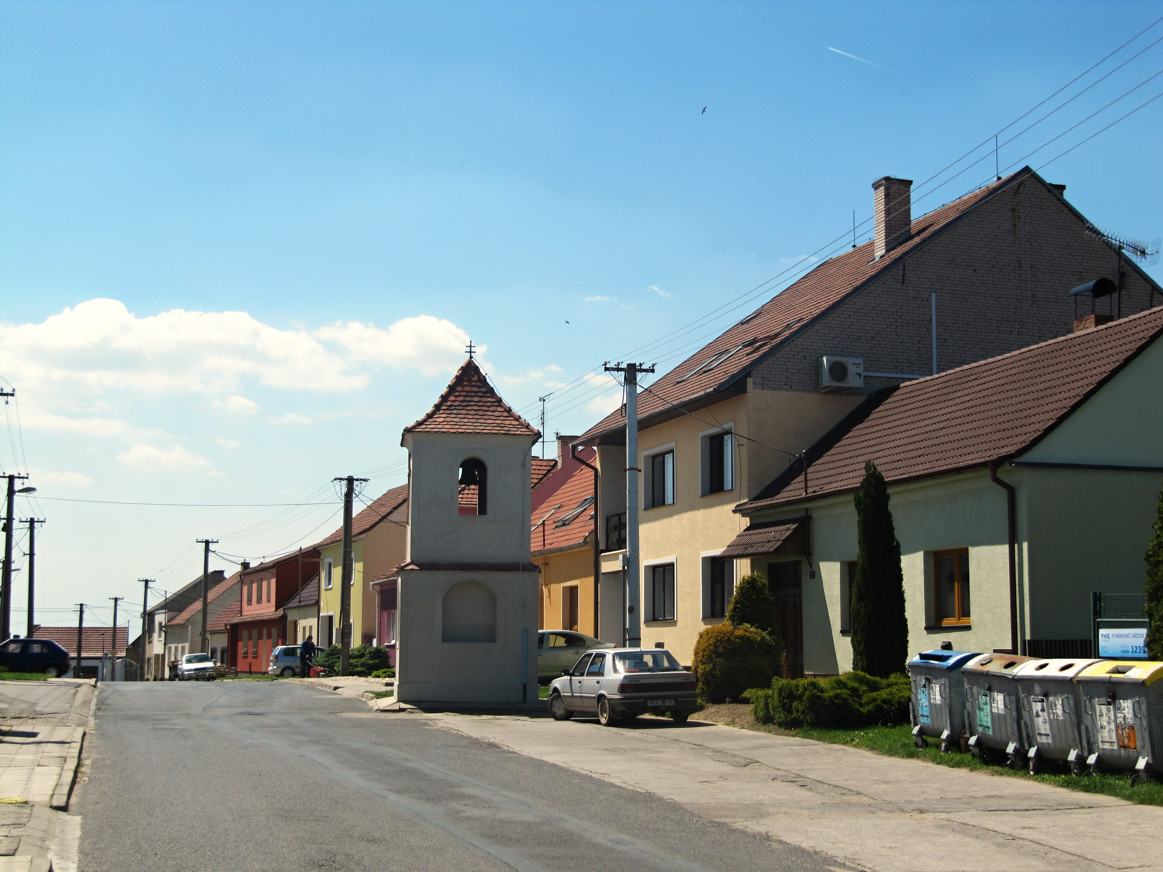 Vnorovy in Hodonín District, part Lidéřovice, Czech Republic. School and the First World War-monument.